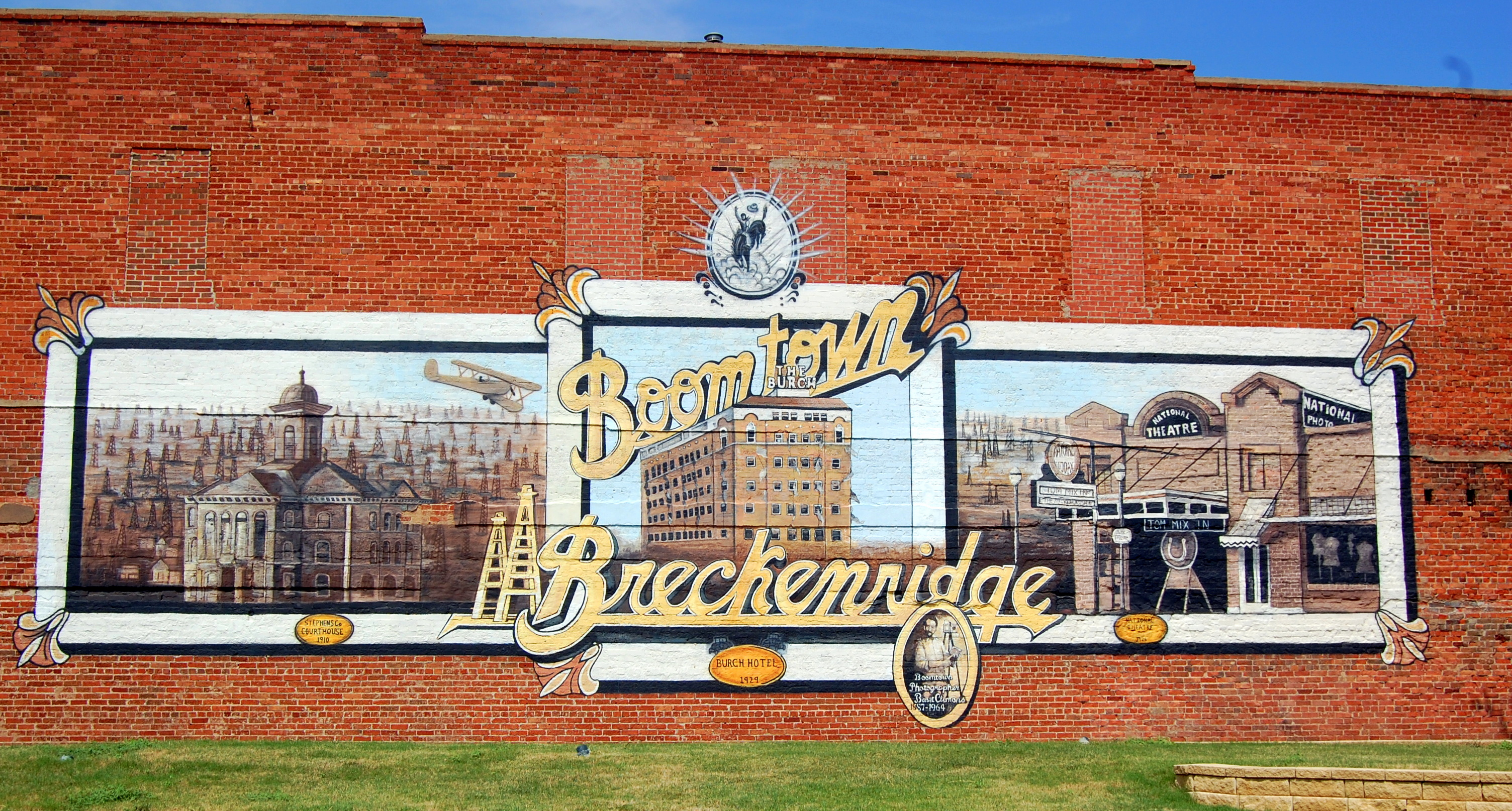 Mural depicting the downtown attractions in Breckenridge, Texas